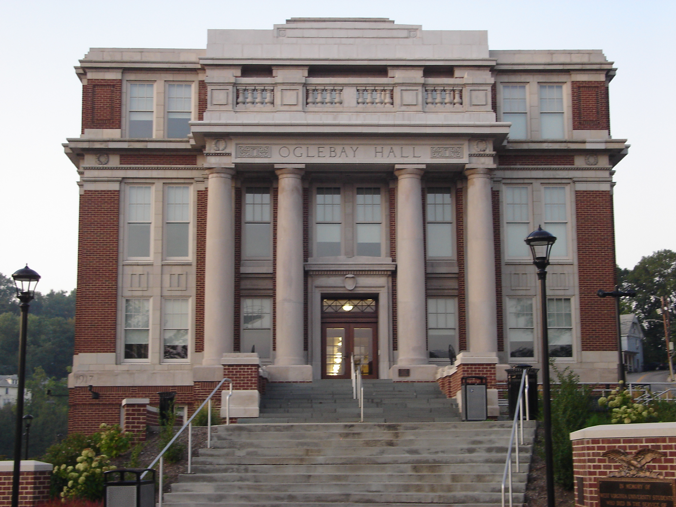 Oglebay Hall sits on the Downtown Campus.